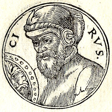 Cyrus II was the first Zoroastrian Persian Shāhanshāh (Emperor). He was the founder of the Persian Empire under the Achaemenid dynasty.